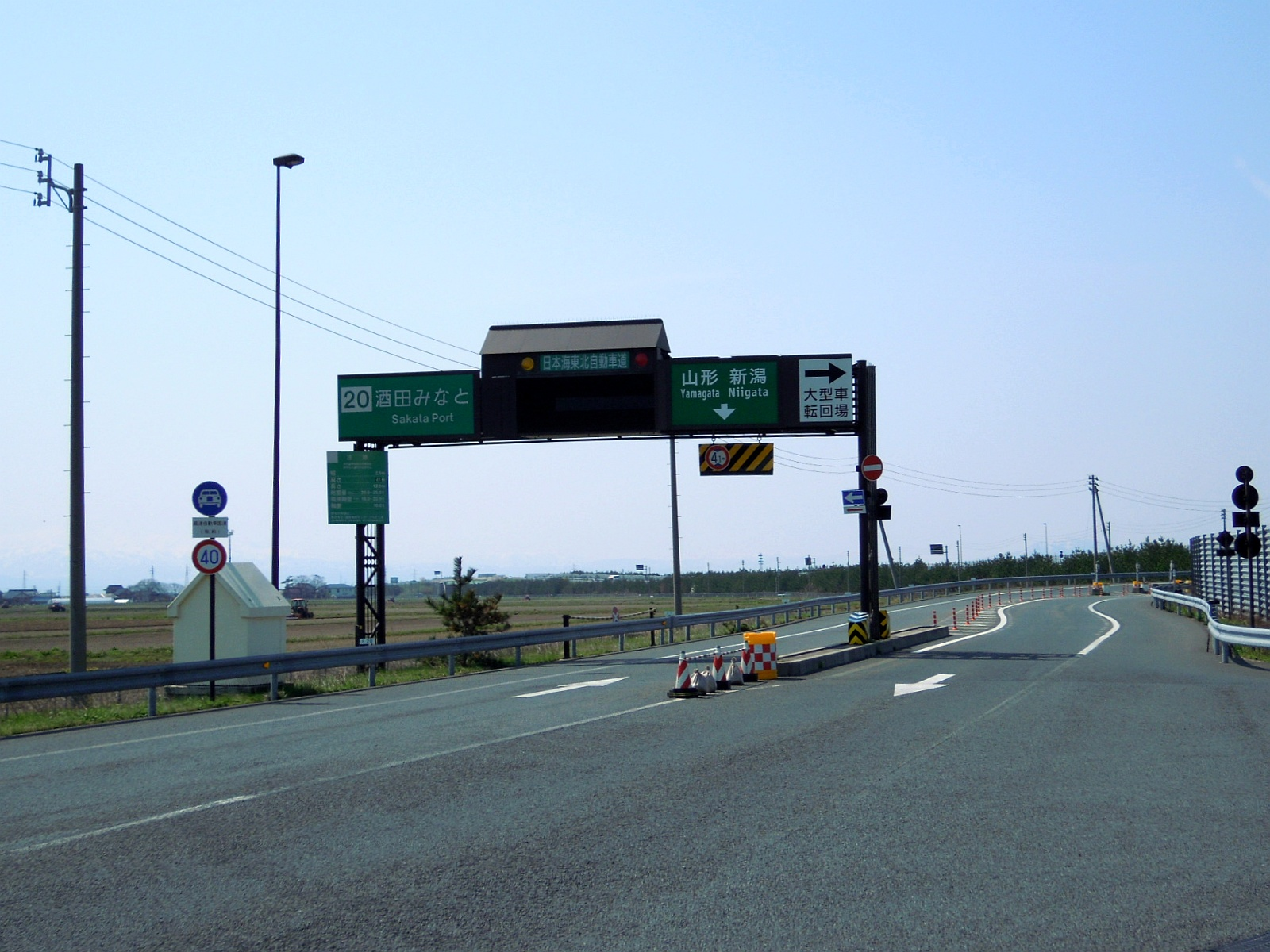 This Interchange, Sakata-Port Interchange, is on Nihonkai-Tohoku Expressway, in Sakata City, Yamagata Prefecture, Japan.